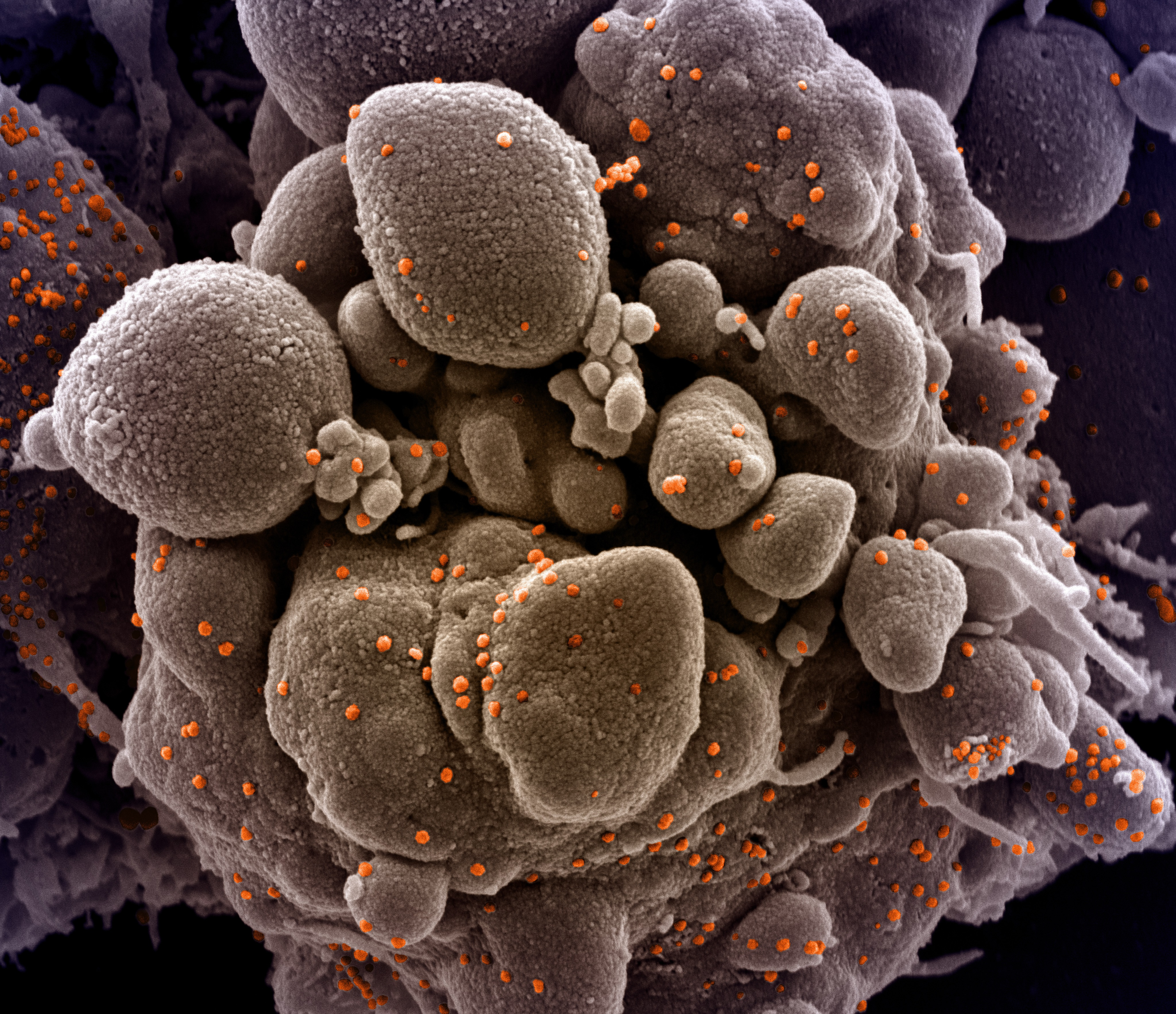 Colorized scanning electron micrograph of an apoptotic cell (tan) infected with SARS-COV-2 virus particles (orange), isolated from a patient sample. Image captured at the NIAID Integrated Research Facility (IRF) in Fort Detrick, Maryland. Credit: NIAID